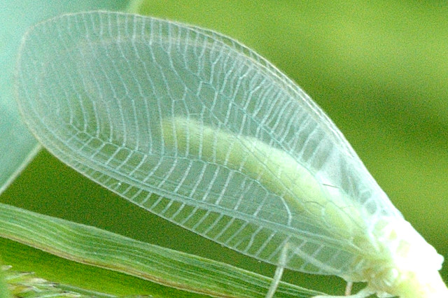 Picture taken in Commanster, Belgian High Ardennes . Species: Chrysoperla carnea wing detail